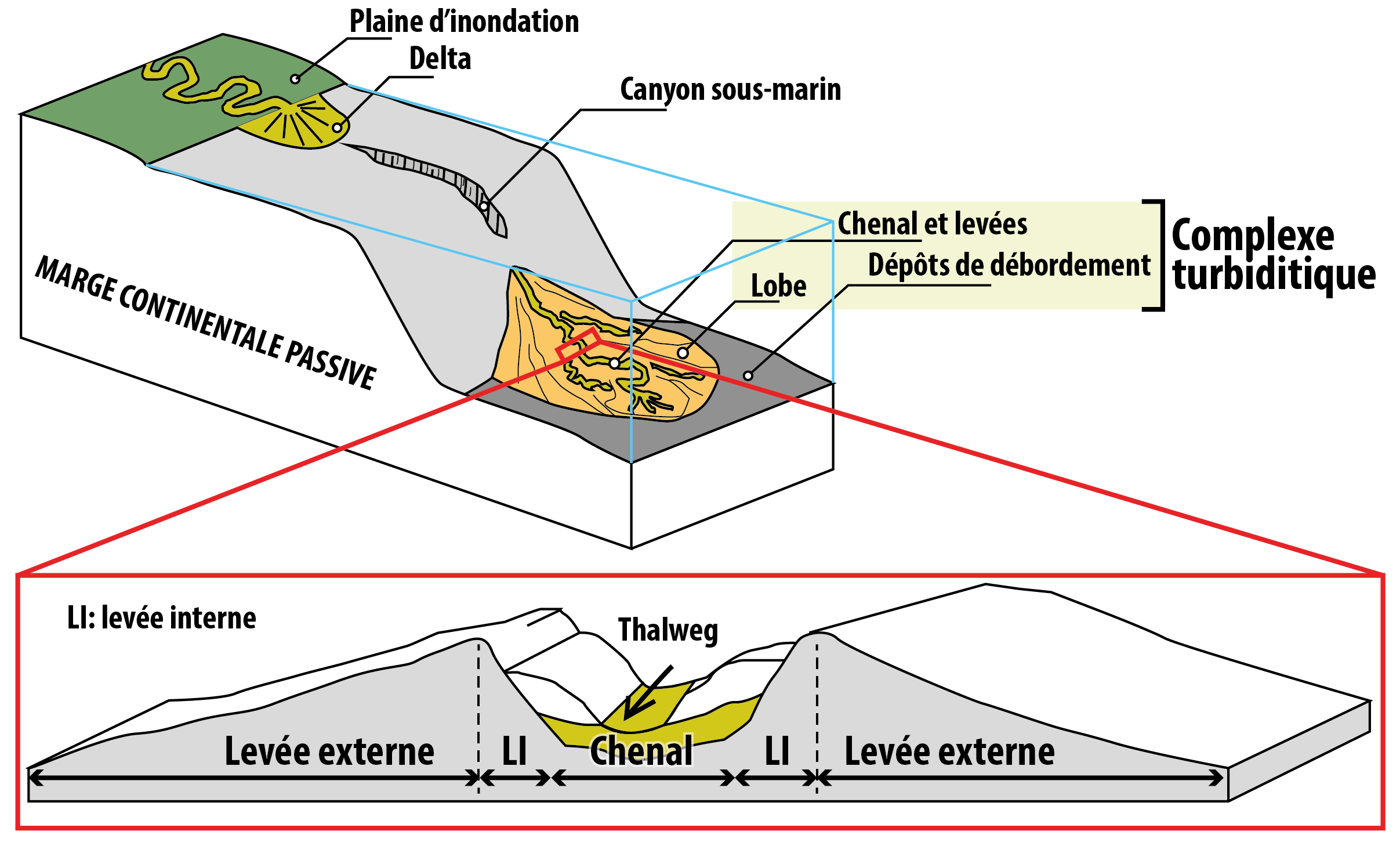 3D bloc of a deepwater turbidite with levees and lobe